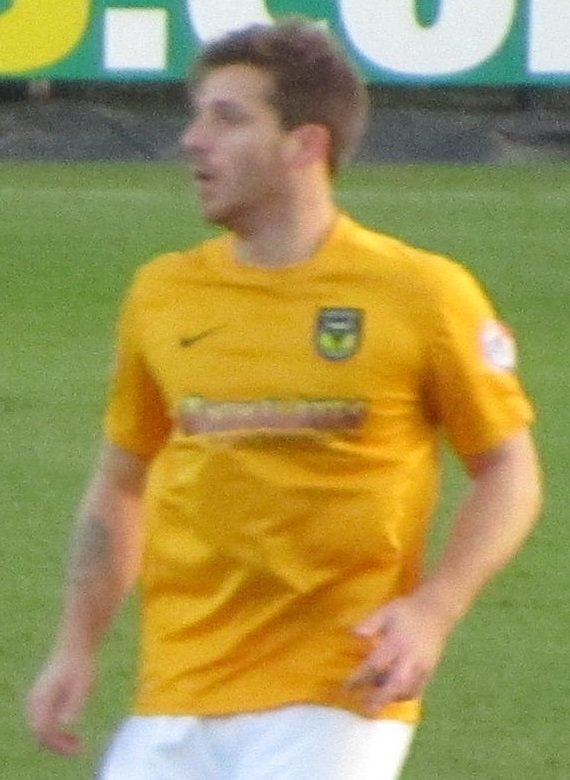 Johnny Mullins.